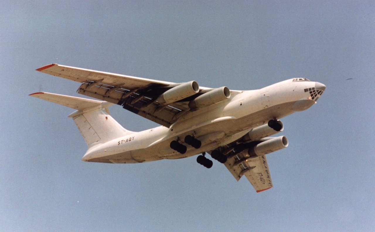 IL-76 ST-AQY (2)